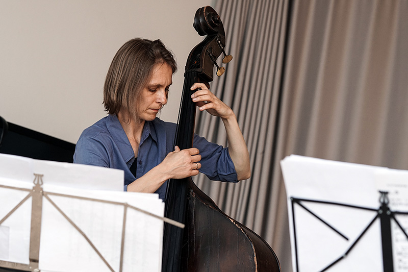 Anne Mette Iversen at Aarhus Jazz Festival, Denmark 2017